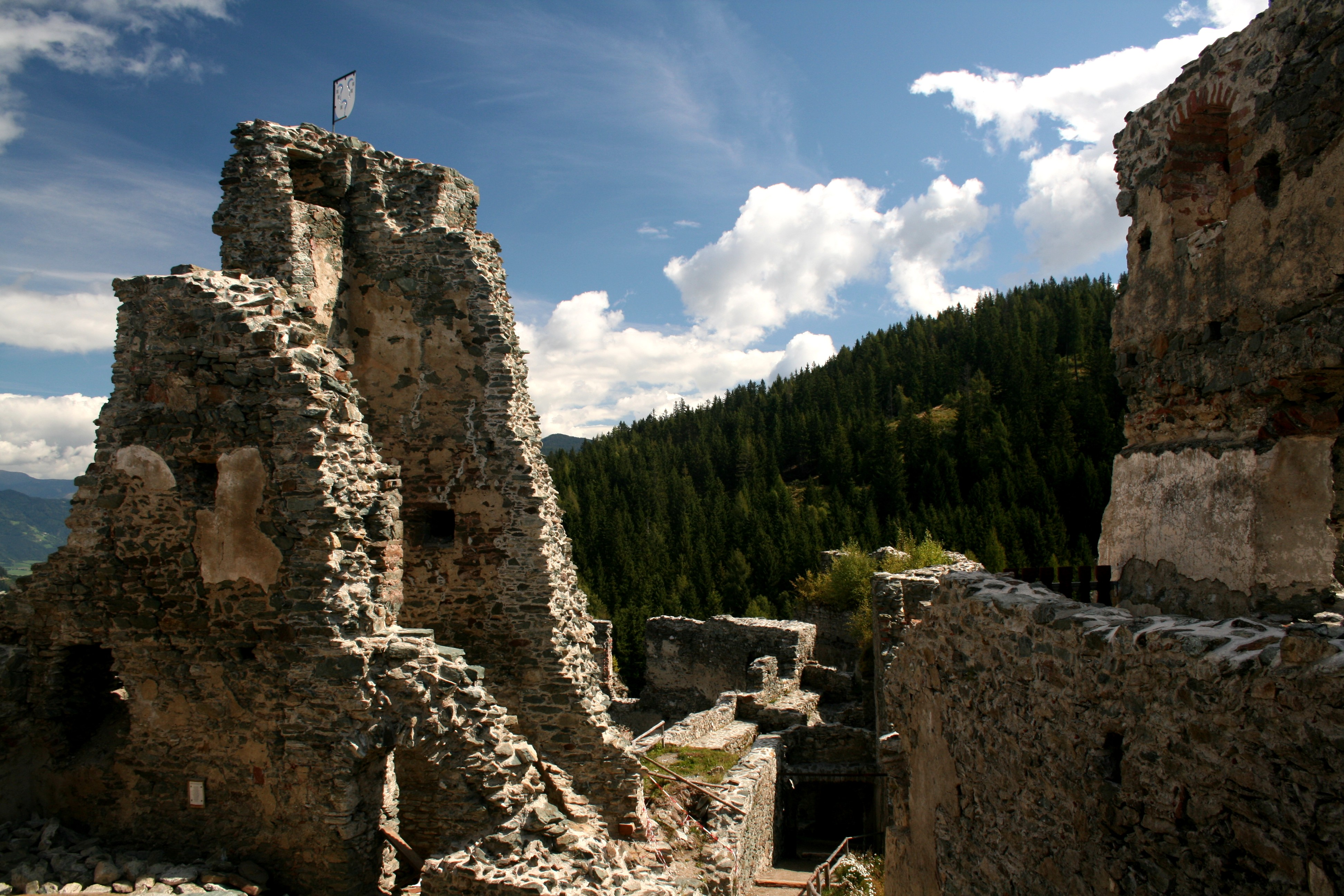 Ruine Steinschloss ("Steinschloss" ruin) in Mariahof, Styria, Austria